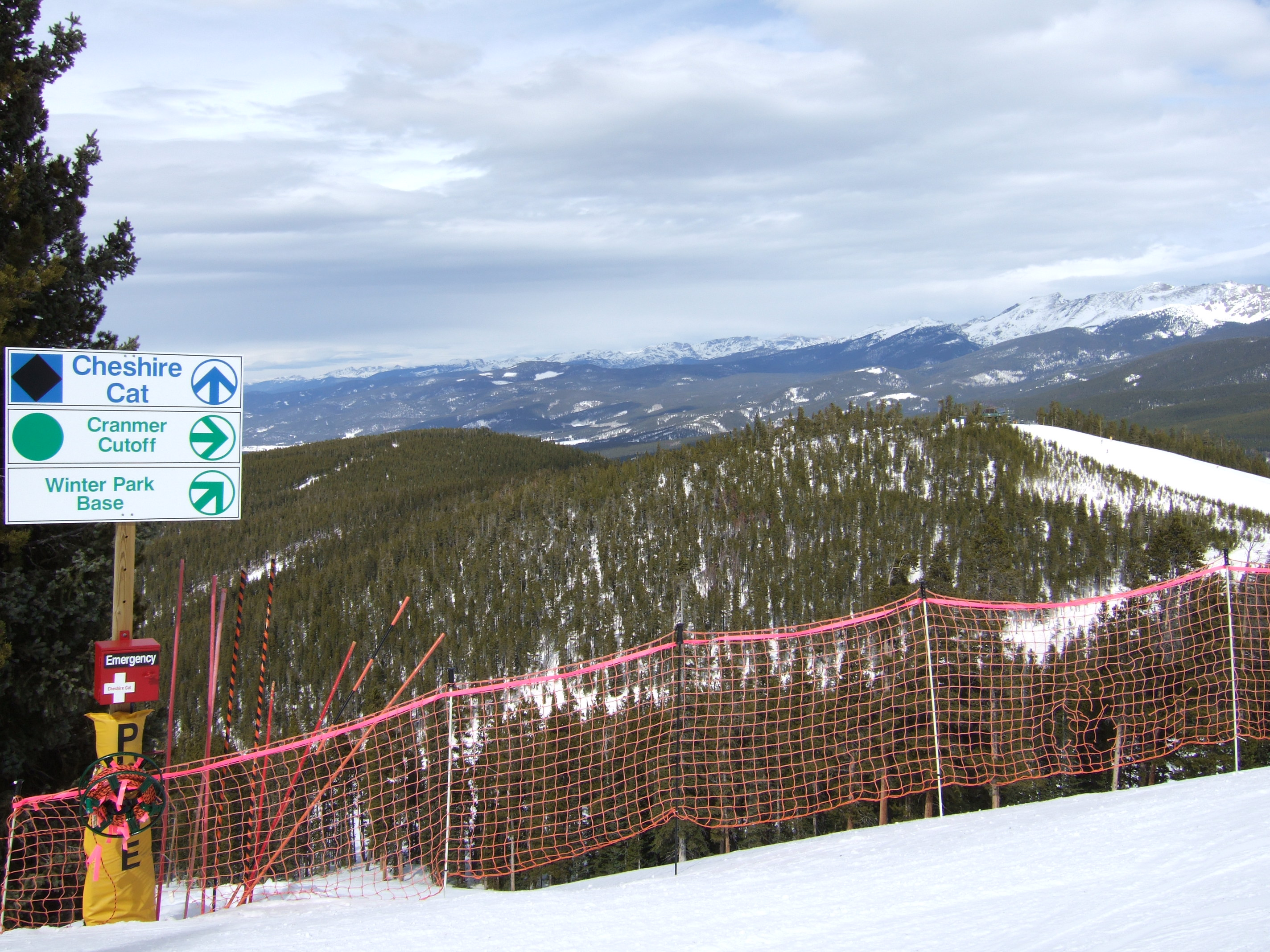 A trail sign at Winter Park Ski Resort in Winter Park, Colorado.